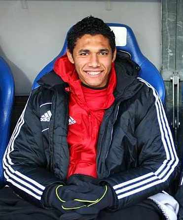 Egyptian Footballer Mohamed Elneny, who plays for Swiss Club FC Basel